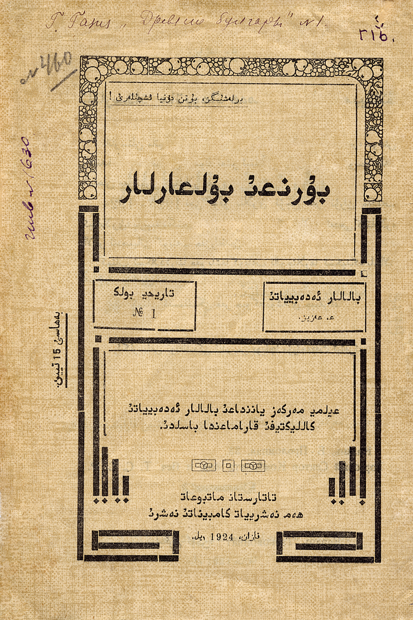 This image represent coverage of Tatar Yana imla book, printed with Separated Arabic